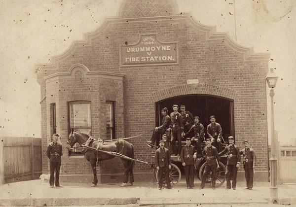 Image from NRS 15454. This series consists of photographs of Sydney fire scenes, official and sporting photographs of fire-fighters of the Metropolitan Fire Brigade, equipment used for fighting fires, and members of the Fire Brigades Board and Board of Fire Commissioners. Archives in Brief 113 provides a short history of the Fire Brigade and related sources in our collection. Rights: We'd love to hear from you if you use our photos. Many other photos in our collection are available to view and browse on our website using Photo Investigator.